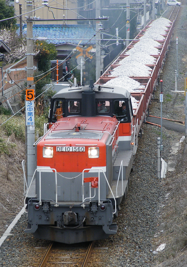 Limestones freight train on the JR Ube line.